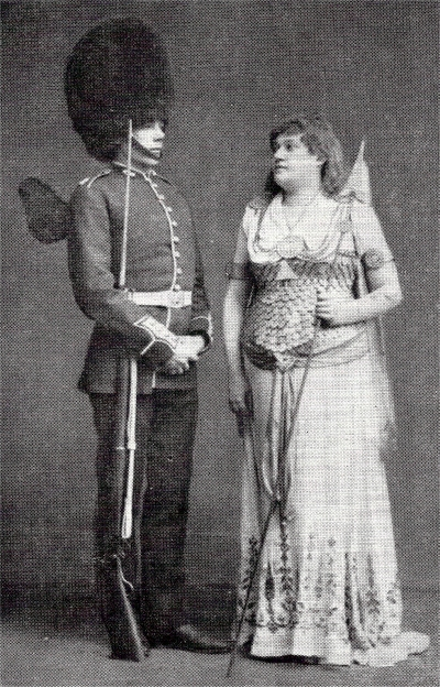 Publicity photograph of Charles Manners (bass) and Alice Barnett in Gilbert and Sullivan's Iolanthe, 1882. Public domain.